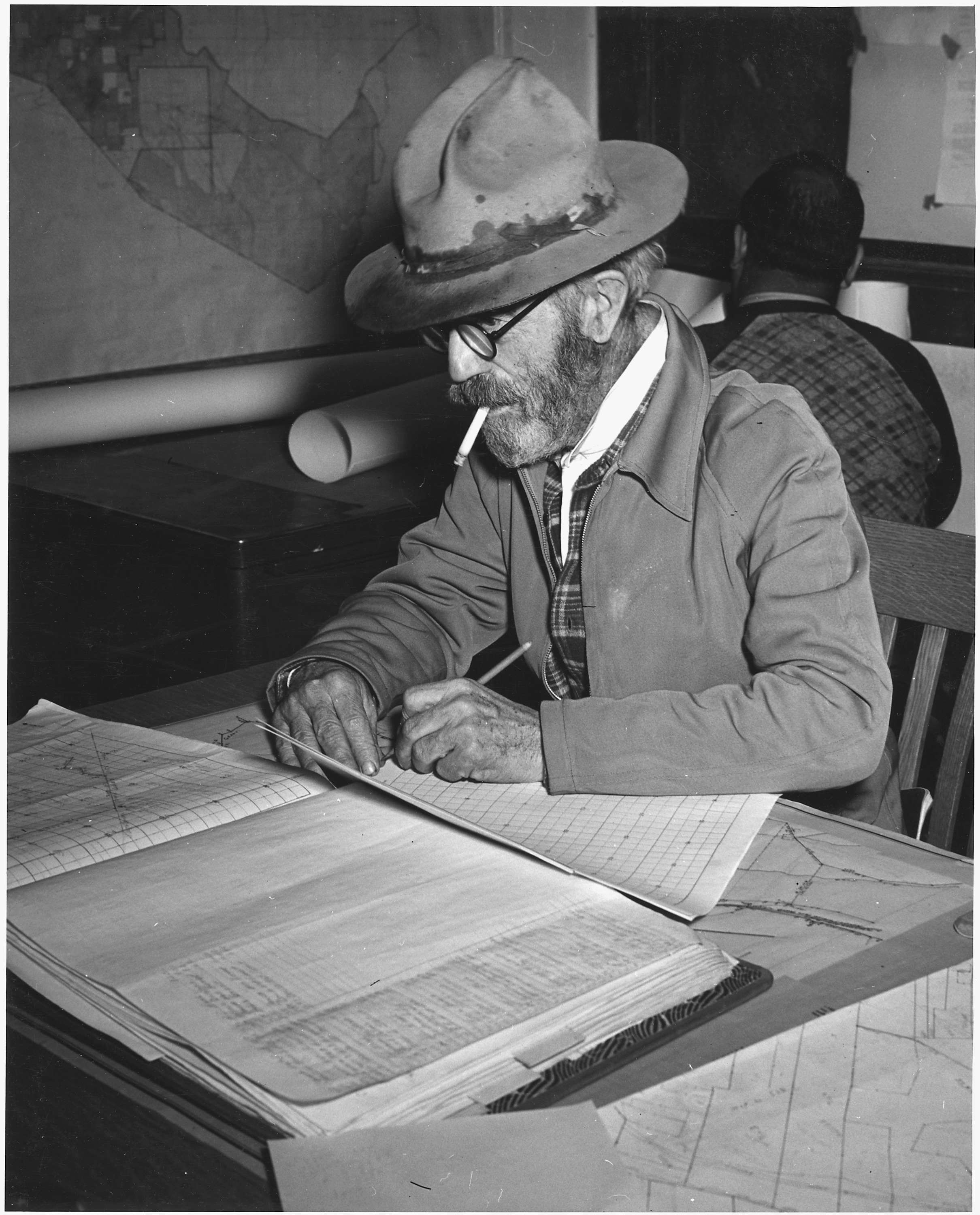 Scope and content: Full caption reads as follows: Taos County, New Mexico. Jim Barns, surveyor with New Mexico Re-Assessment Survey.